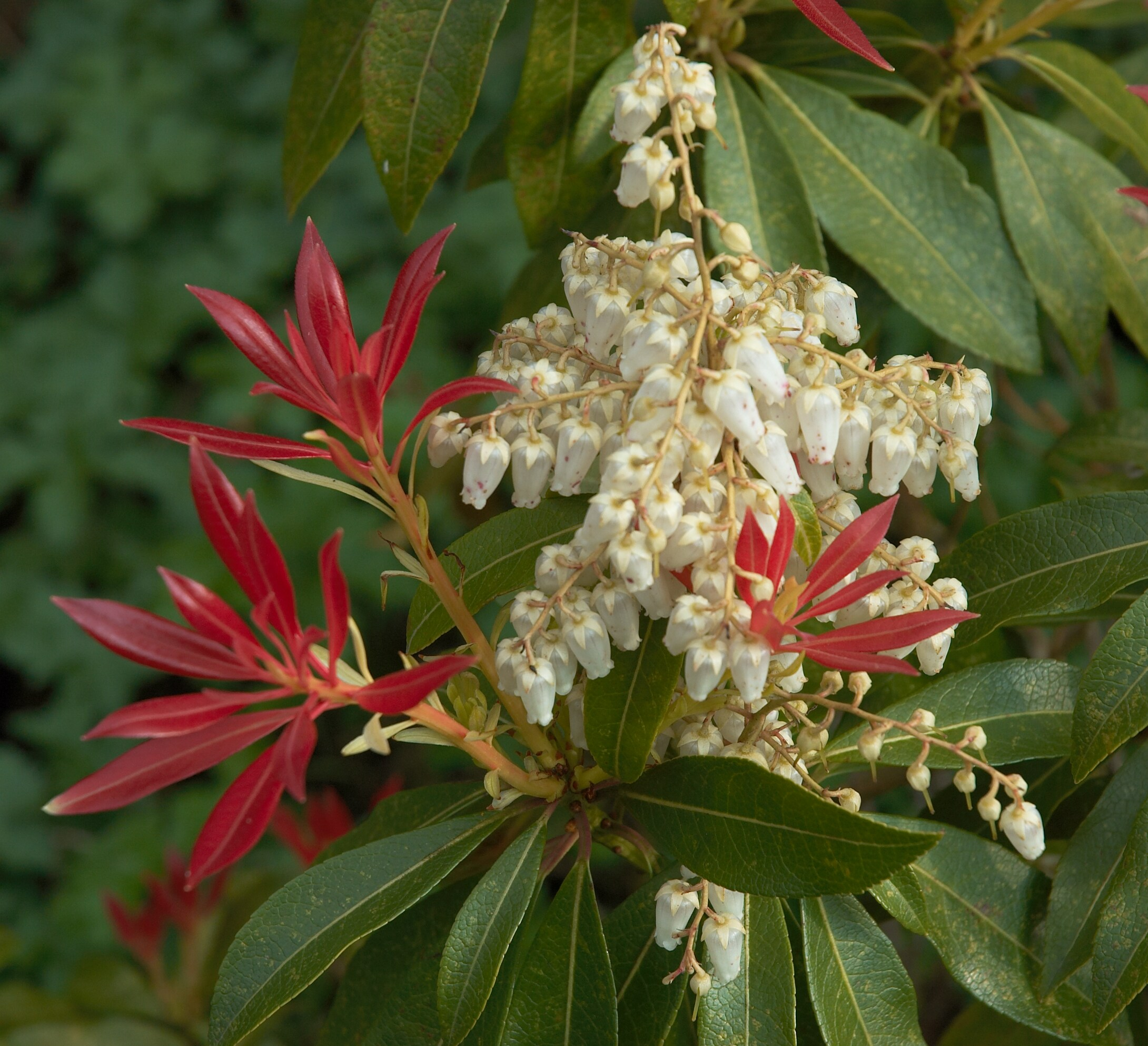 Pieris ‘Forest Flame’ (NOTE: sometimes also mentioned as Pieris japonica 'Forest Flame' or Pieris floribunda 'Forest Flame'